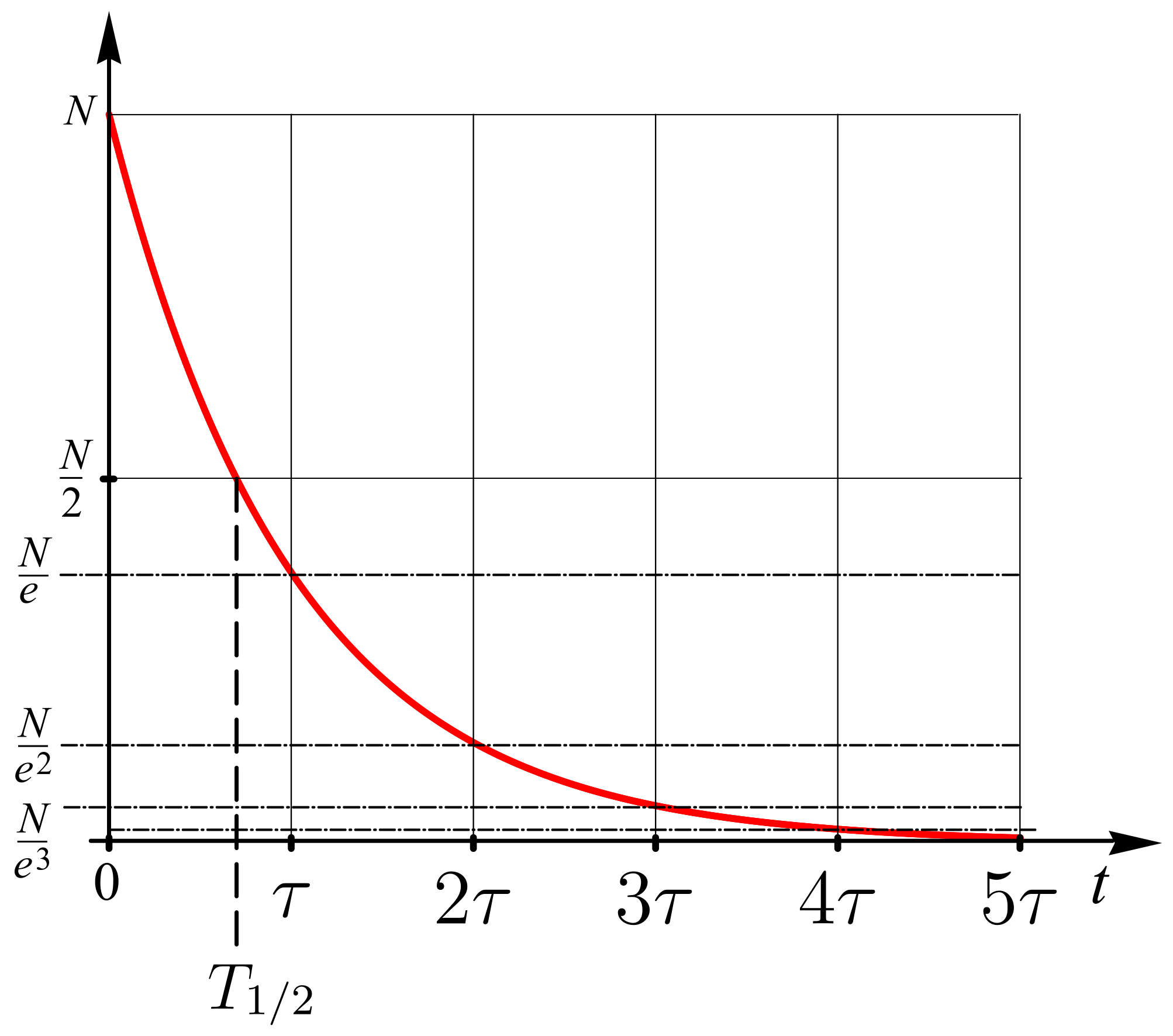 Radioactive decay